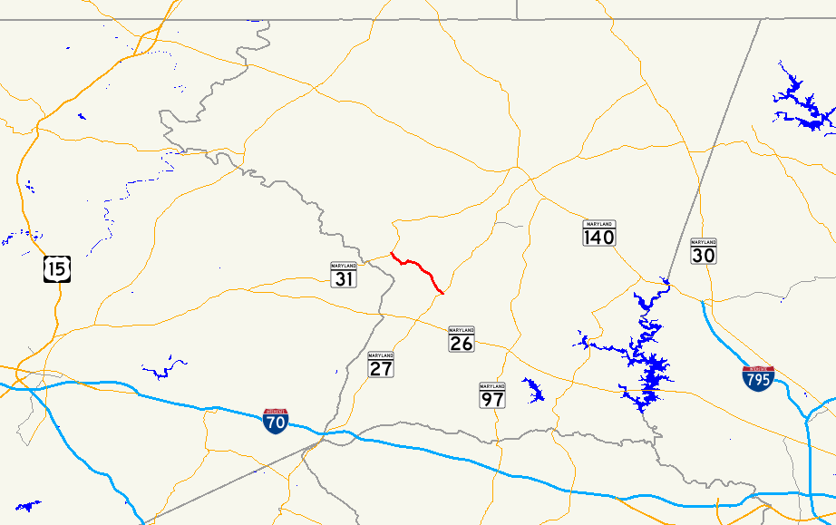 Map of Maryland Route 407